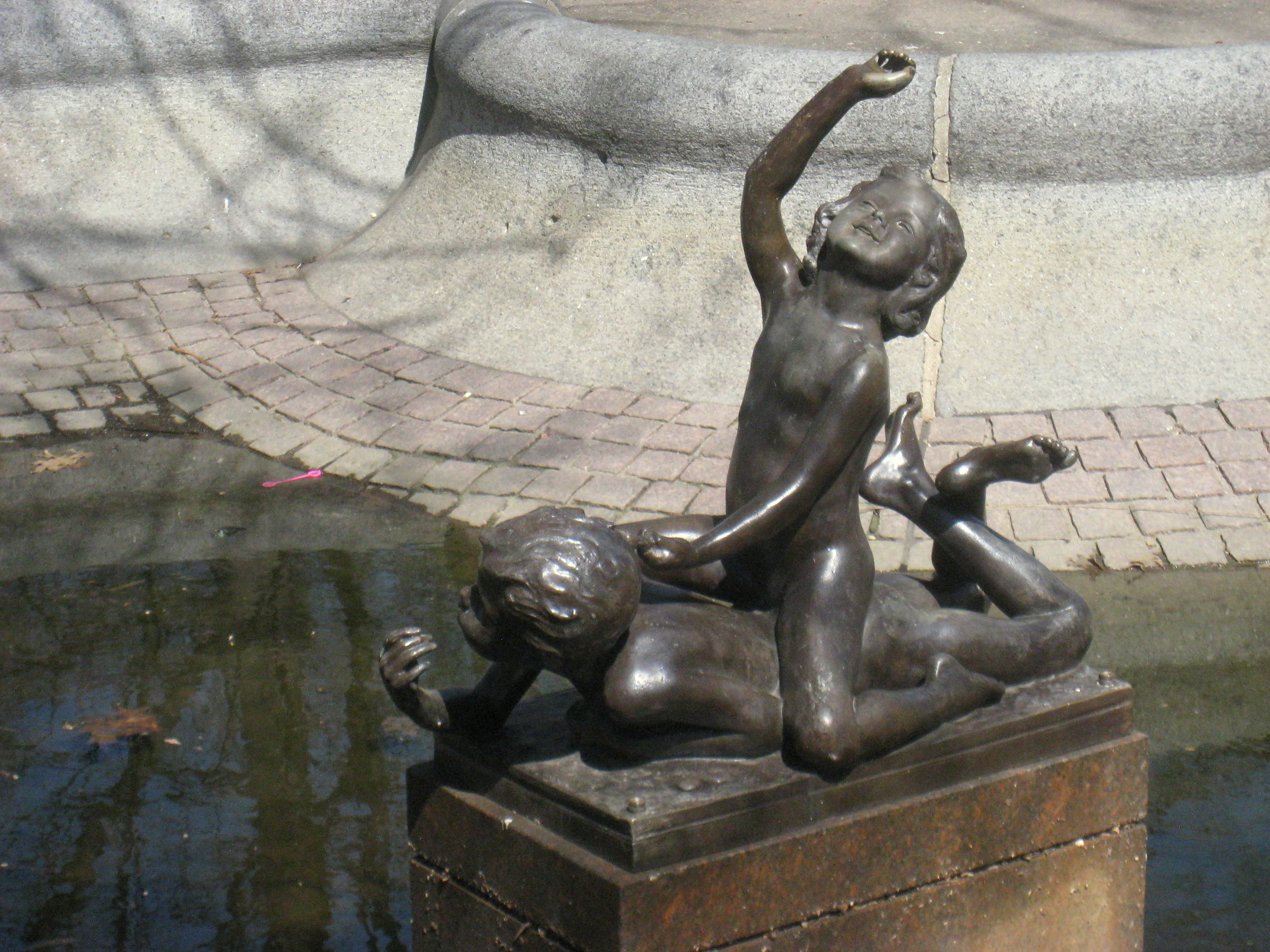 Triton Babies in Boston Public Garden, Boston, Massachusetts, USA. Sculpture by Anna Coleman (Watts) Ladd (1878-1939). Date of creation unknown; it moved to this location in 1924.